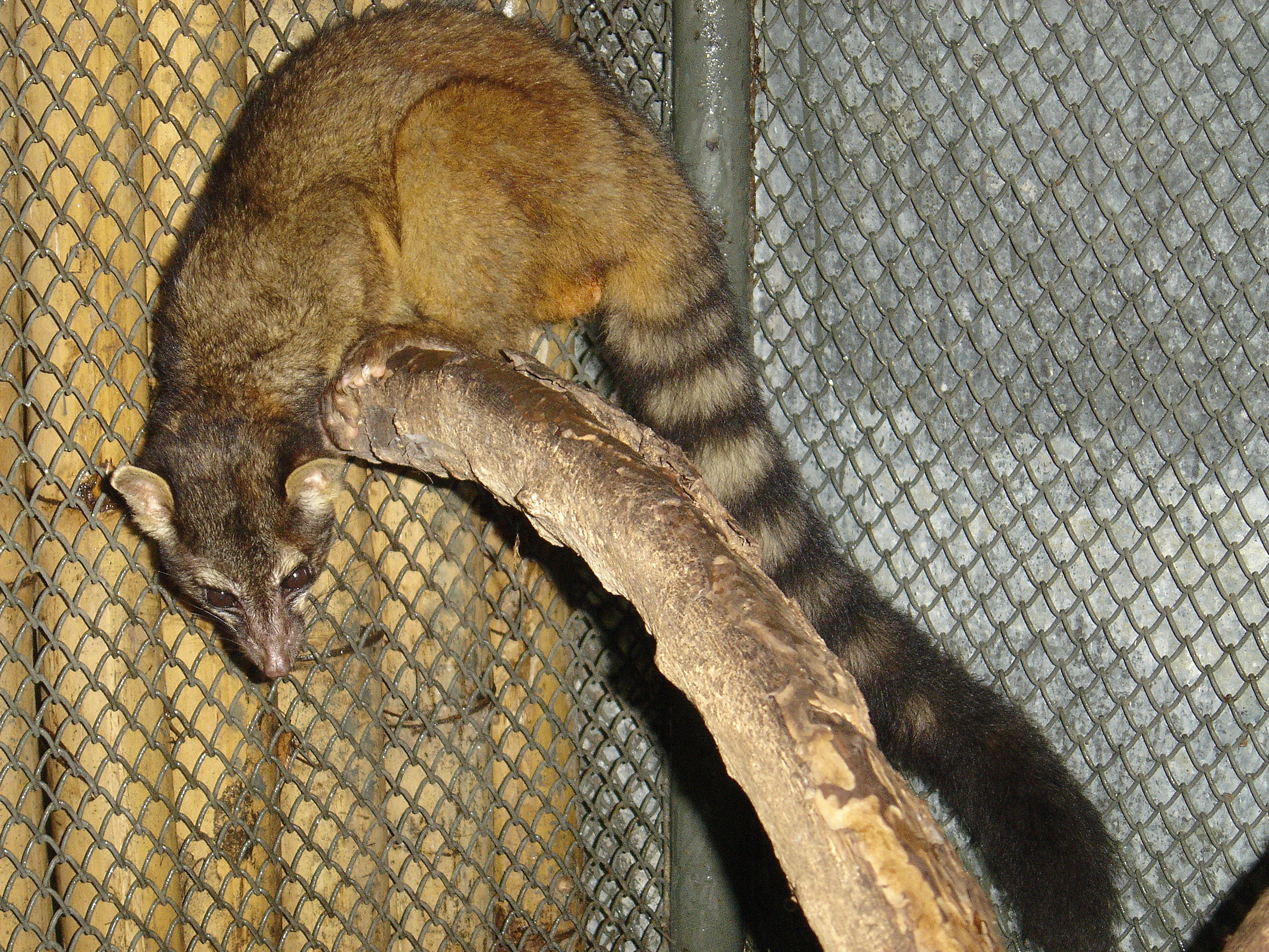 Bassariscus sumichrasti. Cacomistle. Geocoded image. Taken in Escuintla, Guatemala. September 3 2004. 10:07 AM Local (GMT-6)